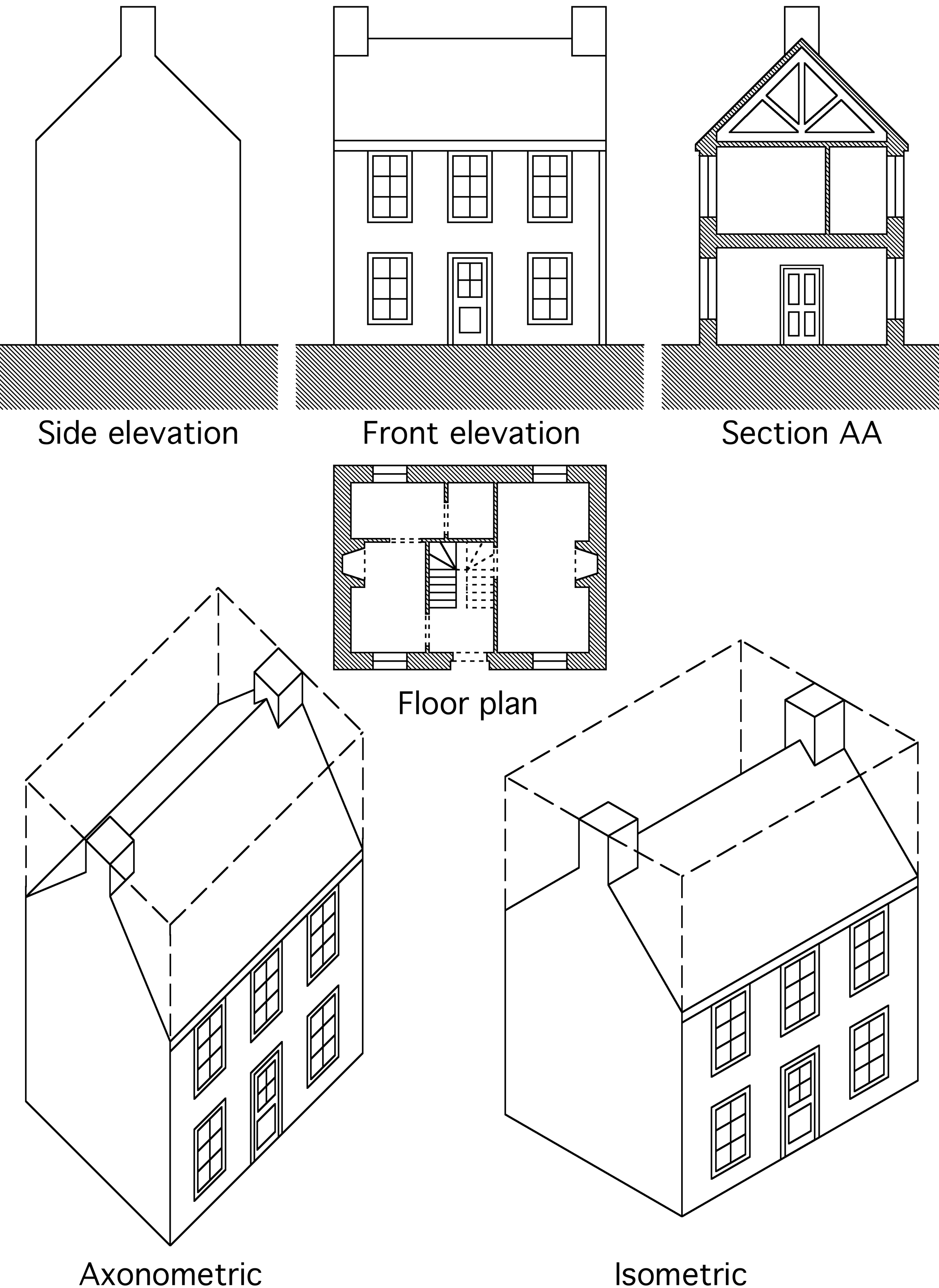 Illustration of the standard orthographic projections used in architectural drawing.